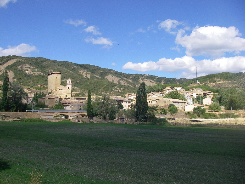 View of Biel (Zaragoza, Aragon, Spain)